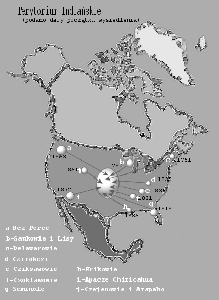 Map of the Indian Territory relocations in the 19th century.